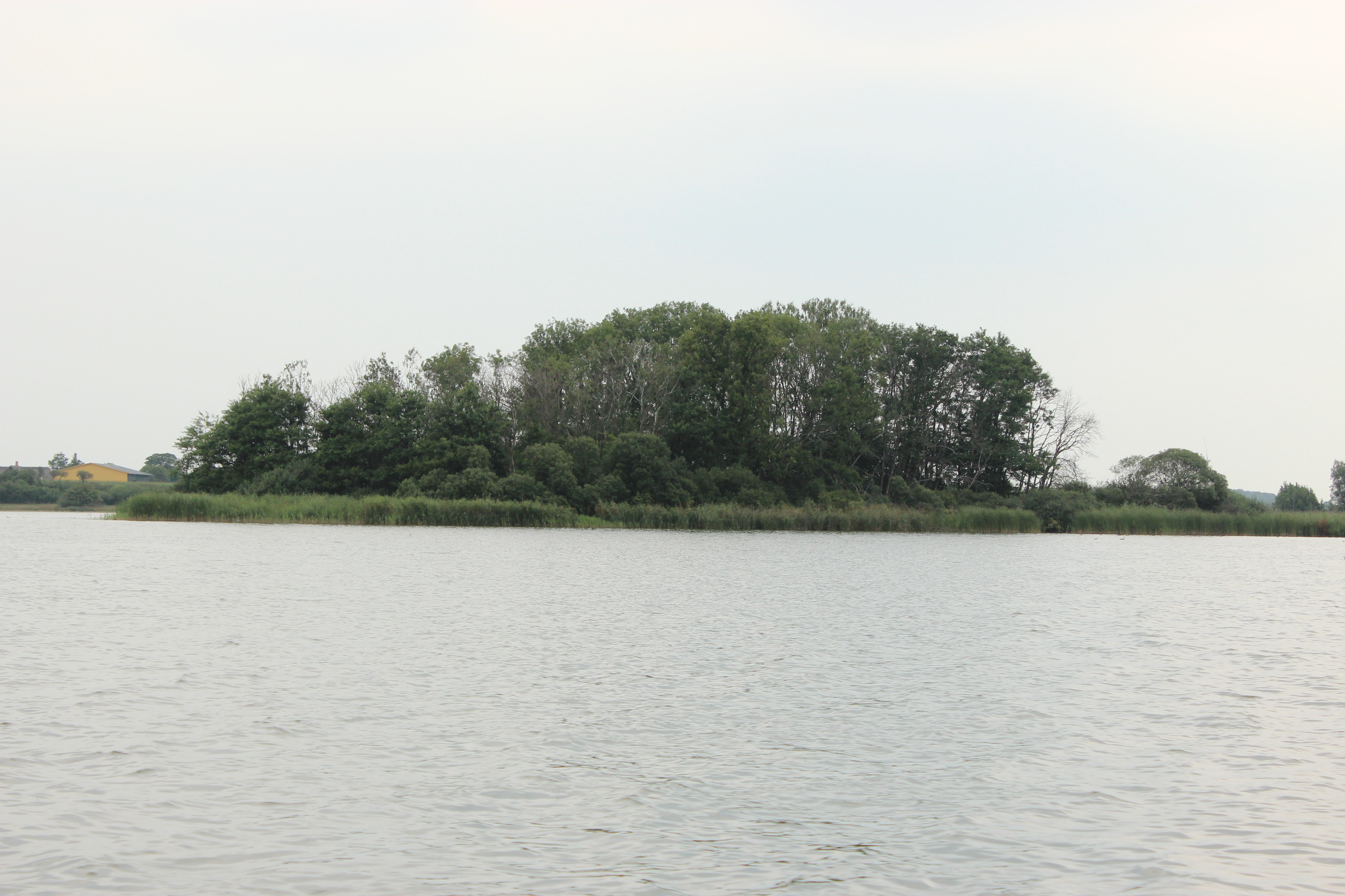 The western part of Borgø in Maribo Søndersø.